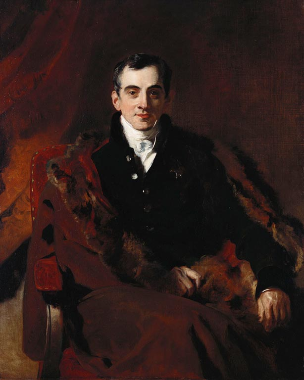 Portrait of Ioannis Kapodistrias. Oil on canvas, 128.3 x 102.9 cm